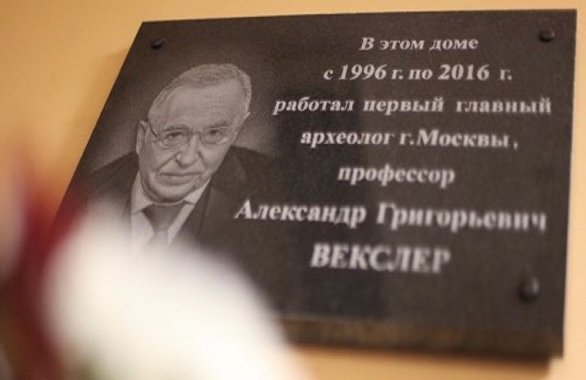 Commemorative plaque of the archaeologist Veksler Alexander Grigoryevich.